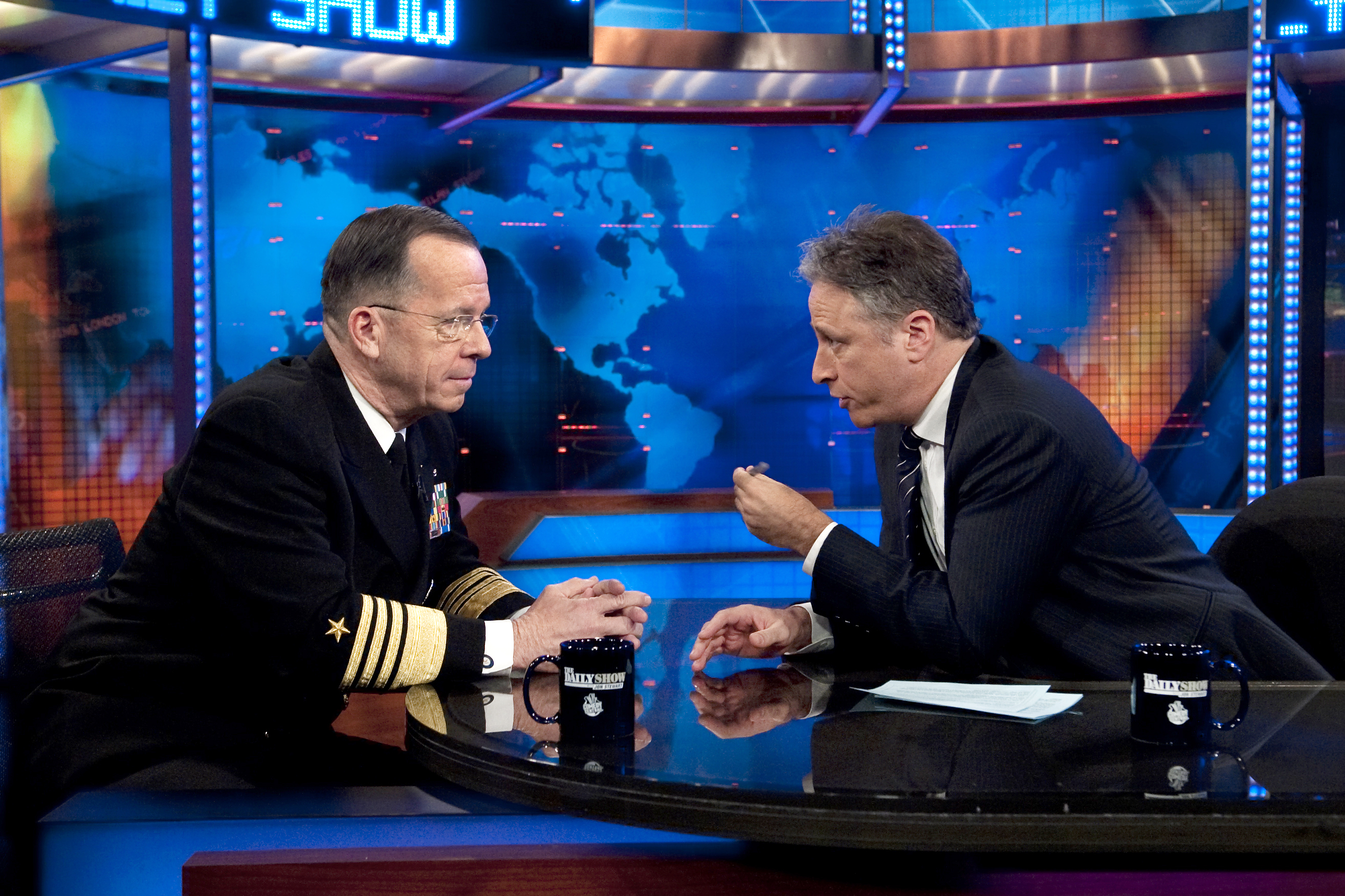 Television host Jon Stewart interviewing Admiral Michael Mullen during a taping session of The Daily Show.